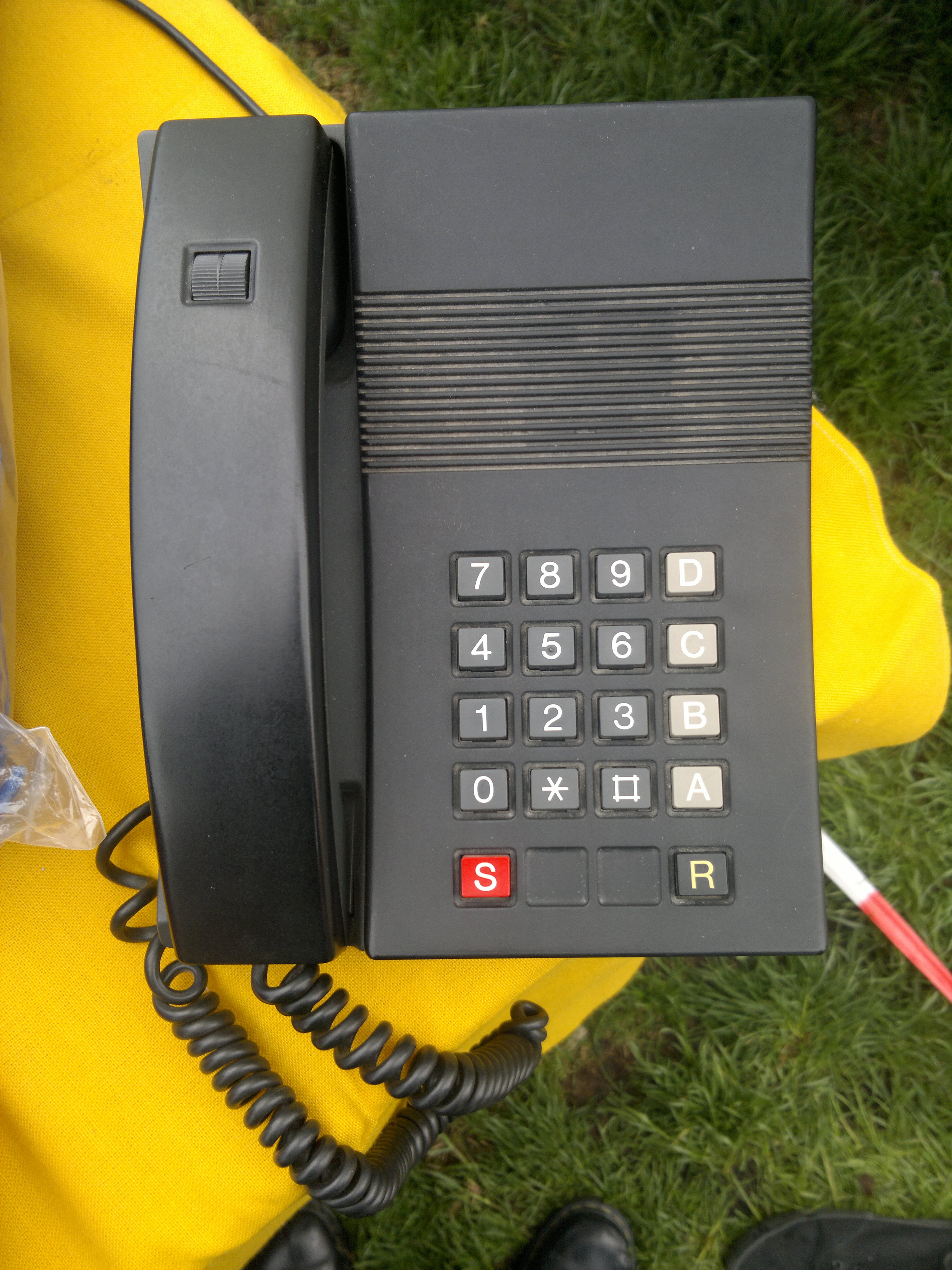 Standard Electric Kirk 76E (Black) Design by Jacob Jensen produced by Jydsk Telefon in Denmark. Picture is taken at a Flea market in Aarhus (The city where the phone was invented back in the 70's) at 'Tangkrogen' May 2012.